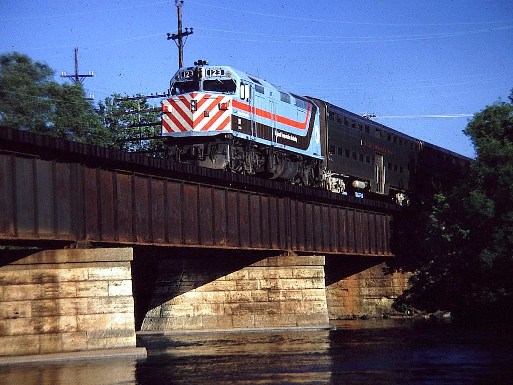 Commuter train crossing the Fox River at Elgin, IL June 1981. Scanned from a 35mm slide.